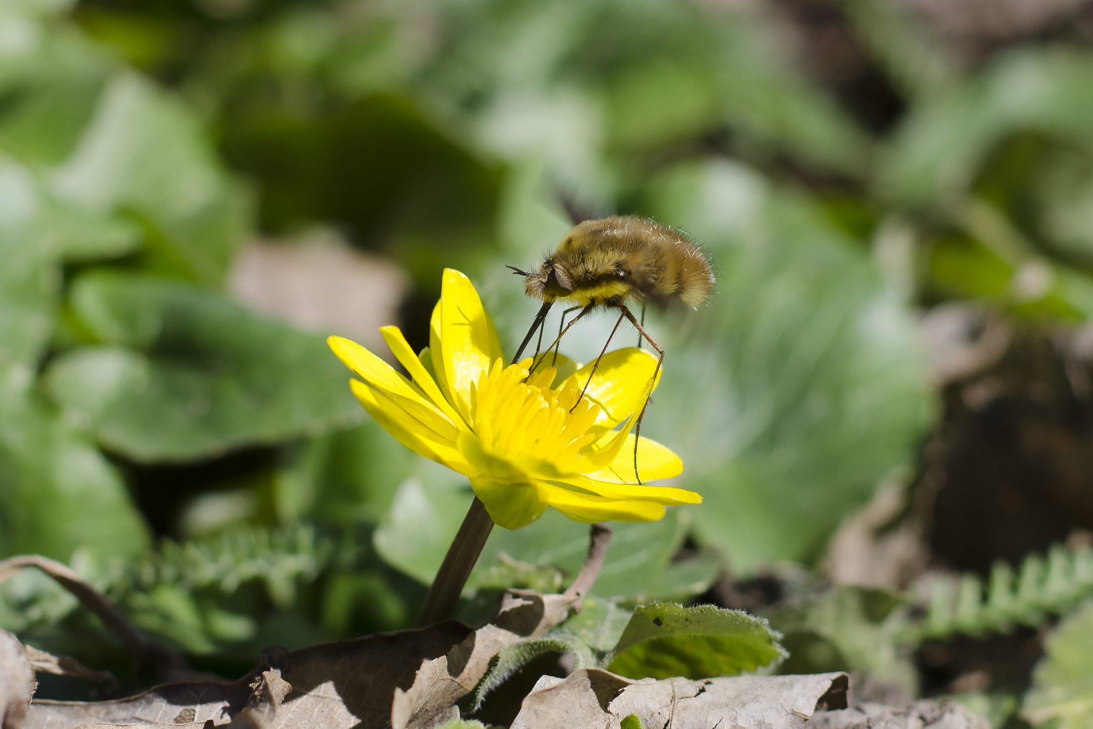 Bombylius major is the most common type of fly within the Bombylius genus. The fly derives its name from its close resemblance to bumblebees and are often mistaken for them. This particularity of the insects exterior allows them to avoid potential predators and to put their eggs into another insects nests. Bombylius major can be found from April to June throughout temperate Europe, North America and some parts of Asia.